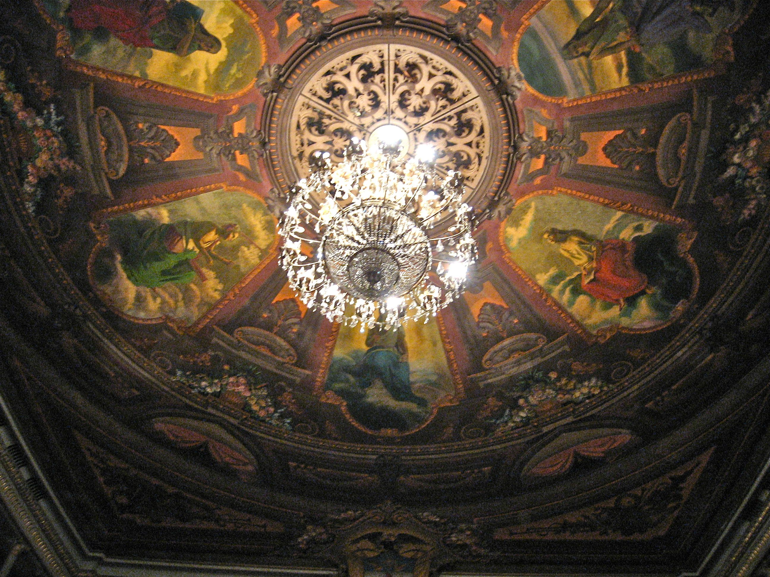 The interior of the Teatro Colon in BogotaPhotographer: Debray Leon Date Picture Taken: 7/25/2007Camera Model: Canon PowerShot A530